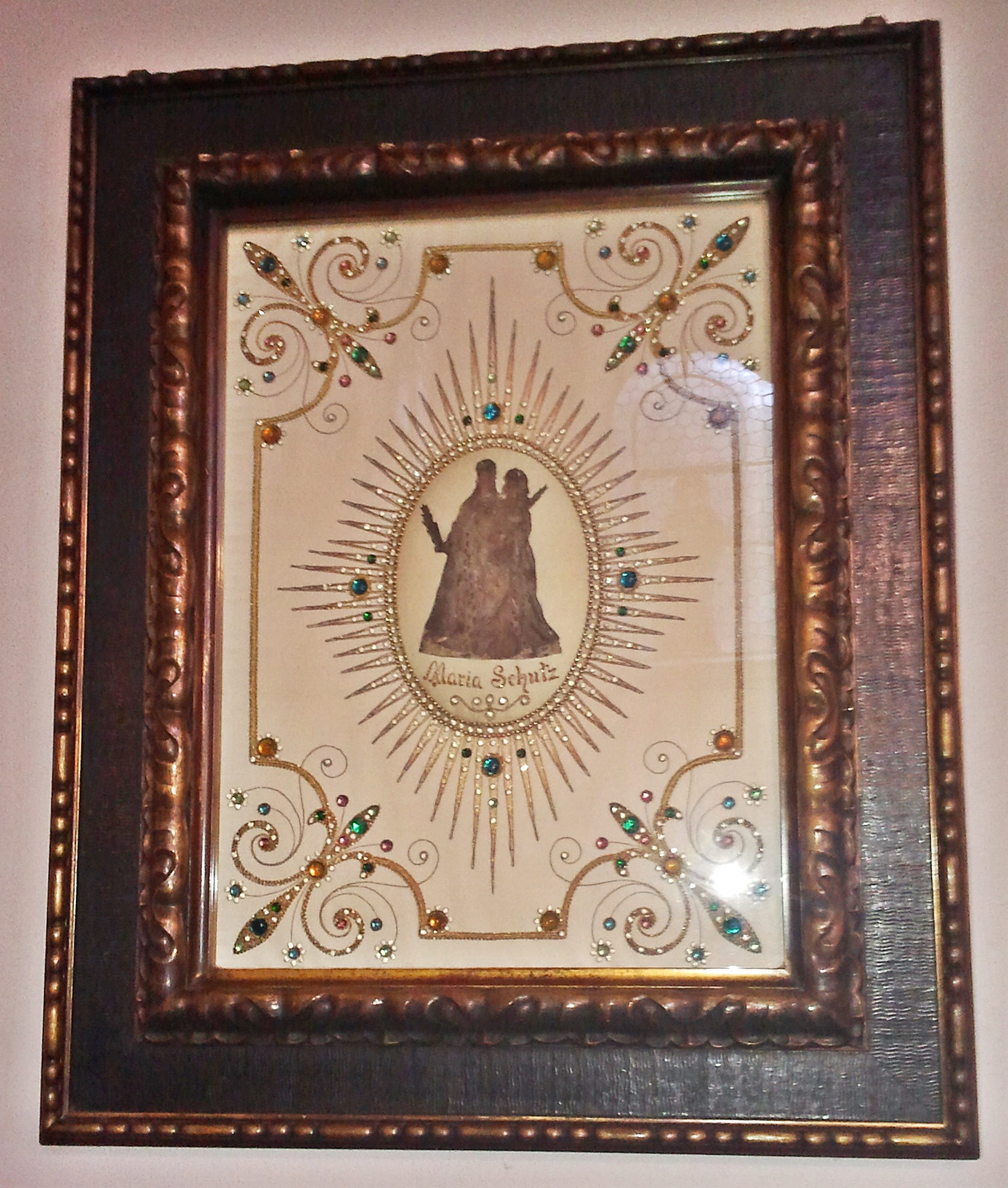 Pfeddersheimer Gnadenbild, 17. Jahrhundert (Simultankirche), ursprünglich aus Elmpt